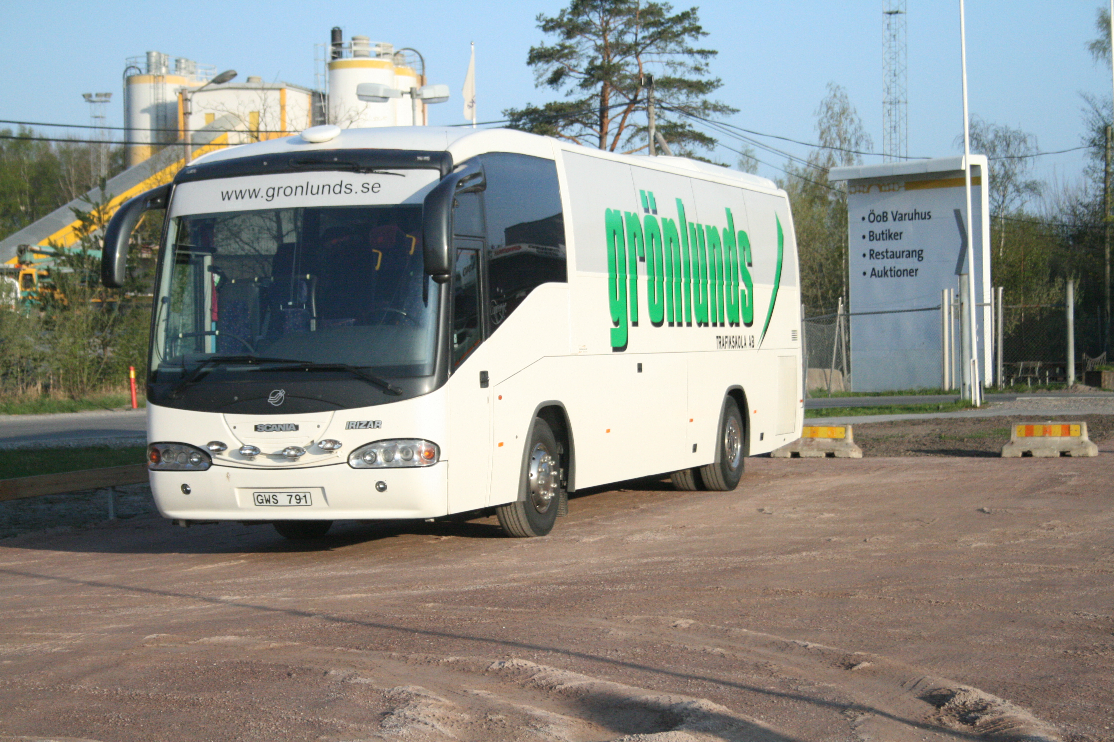 Scania Irizar Century 2000, Grönlunds Driving School.